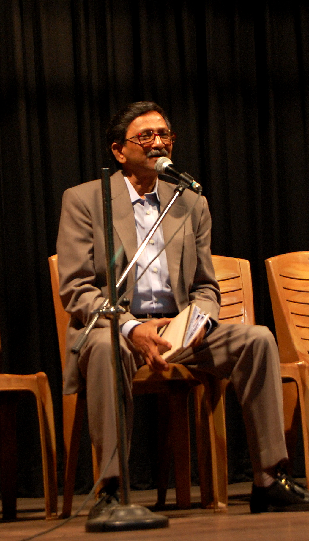 A photo of poet Bimal Guha